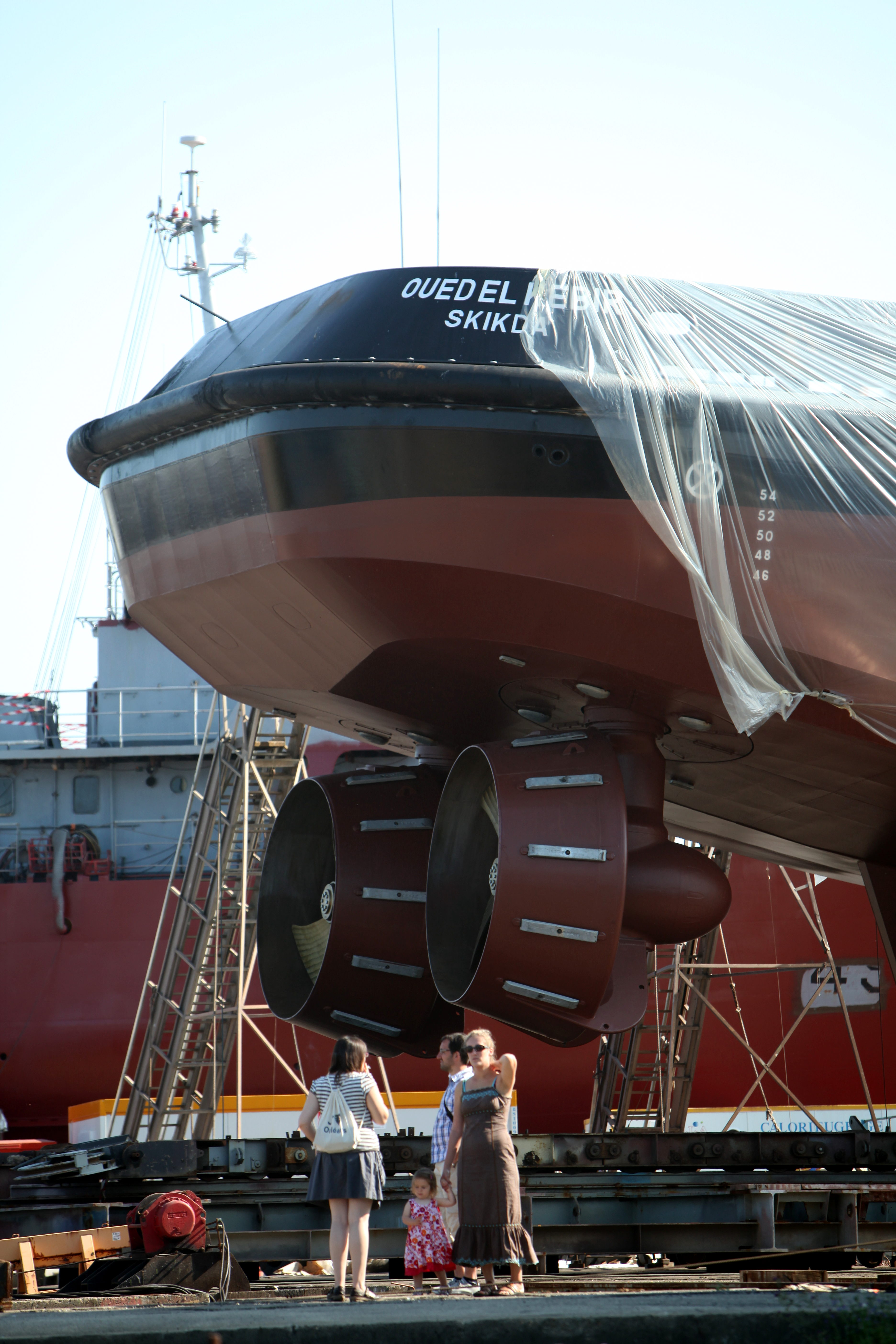 Tug Oued el Kebir refitting in Concarneau harbour.